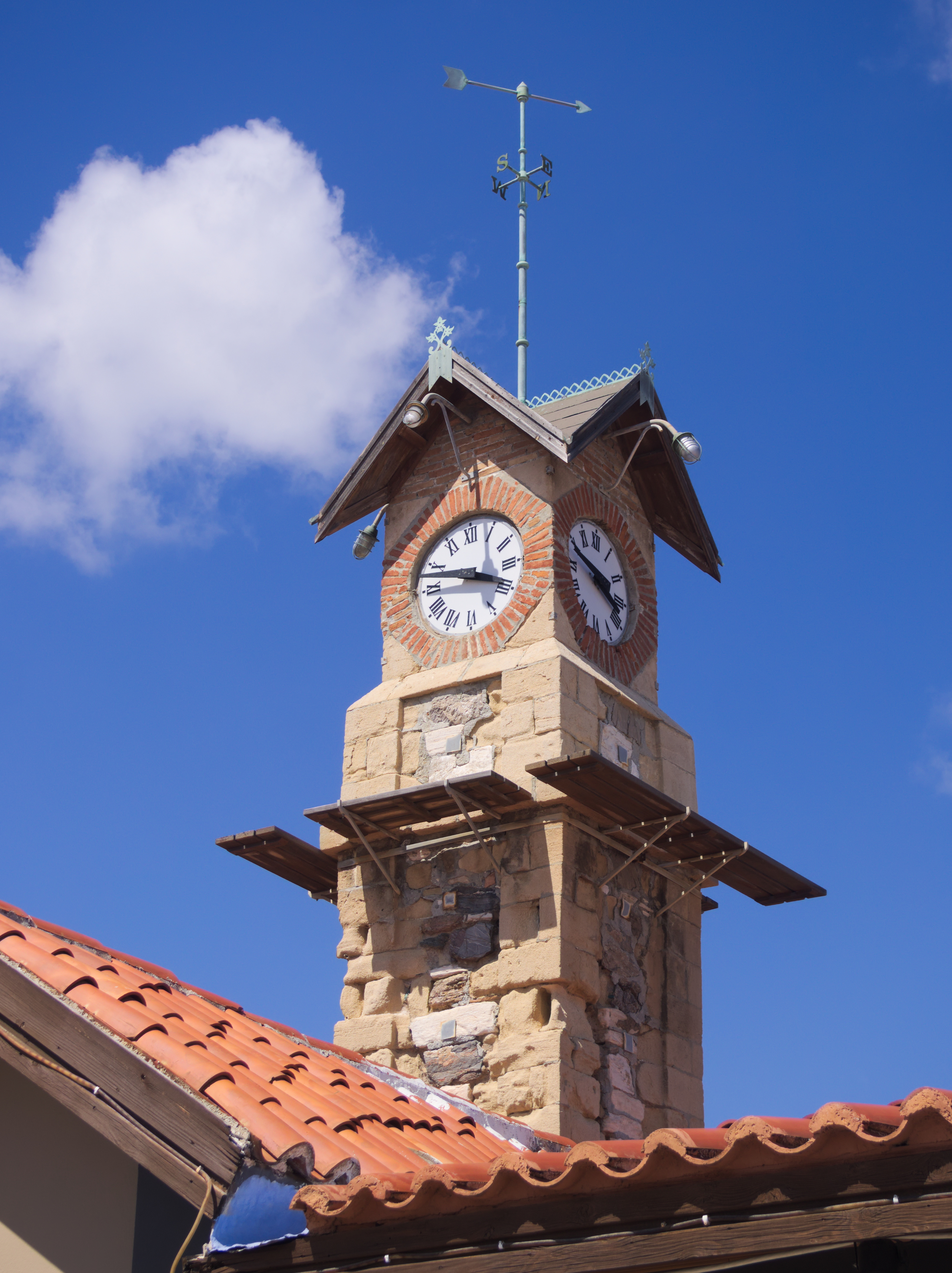 The clock tower of Lavrio, built in 1870s.